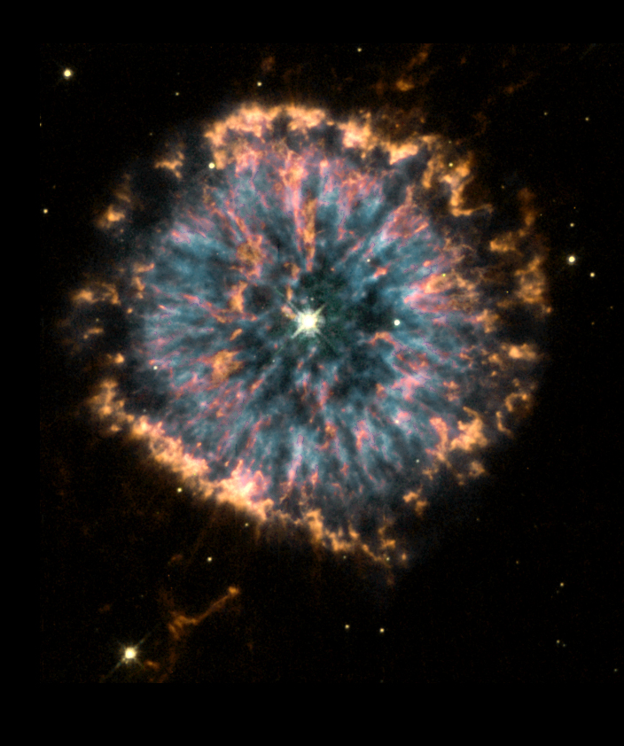 Astronomers using NASA's Hubble Space Telescope have obtained images of the strikingly unusual planetary nebula, NGC 6751. Glowing in the constellation Aquila like a giant eye, the nebula is a cloud of gas ejected several thousand years ago from the hot star visible in its center. The Hubble observations were obtained in 1998 with the Wide Field and Planetary Camera 2 (WFPC2) by a team of astronomers led by Arsen Hajian of the U.S. Naval Observatory in Washington, DC. The Hubble Heritage team, working at the Space Telescope Science Institute in Baltimore, has prepared this color rendition by combining the Hajian team's WFPC2 images taken through three different color filters that isolate nebular gases of different temperatures. The nebula shows several remarkable and poorly understood features. Blue regions mark the hottest glowing gas, which forms a roughly circular ring around the central stellar remnant. Orange and red show the locations of cooler gas. The cool gas tends to lie in long streamers pointing away from the central star, and in a surrounding, tattered-looking ring at the outer edge of the nebula. The origin of these cooler clouds within the nebula is still uncertain, but the streamers are clear evidence that their shapes are affected by radiation and stellar winds from the hot star at the center.